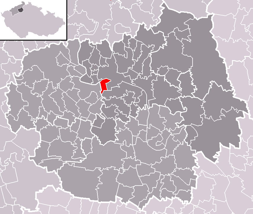 Location of Mlékojedy municipality within Litoměřice District and administrative area of Litoměřice as a Municipality with Extended Competence.